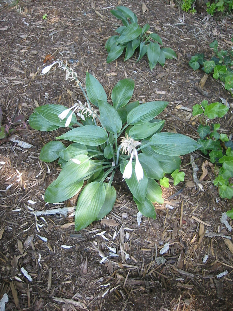 Hosta Tardiana-Group 'Halcyon', Hosta from my yard